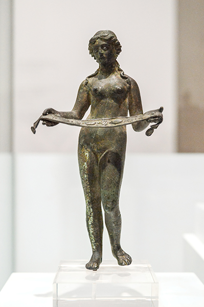 Bronze statuette of Venus or Aphrodite with breastband, 0-400 CE. From the collection of the Royal Museums of Art and History, Brussels, exhibited at 'Timeless Beauty' at the exposition 'Timeless Beauty' at the Gallo-Romeins Museum in Tongeren, Belgium, 2016-2017.